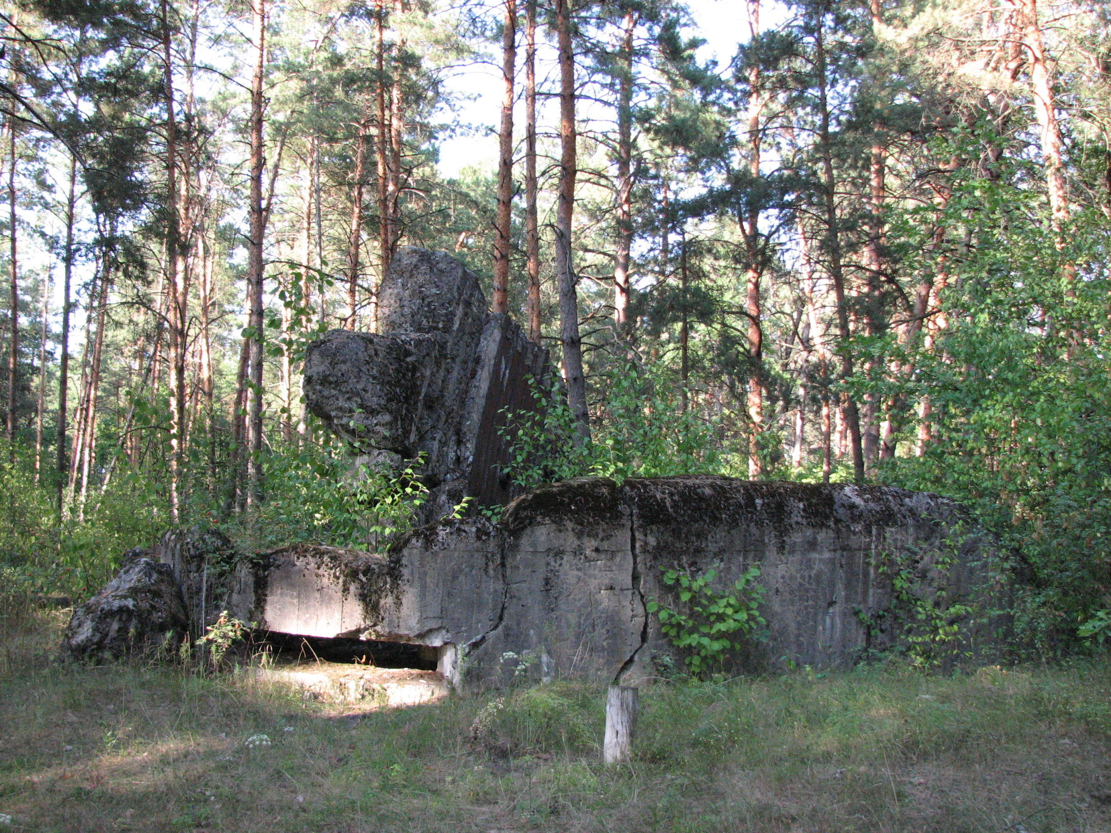 Pillbox 533 (Kyiv Fortified Region)